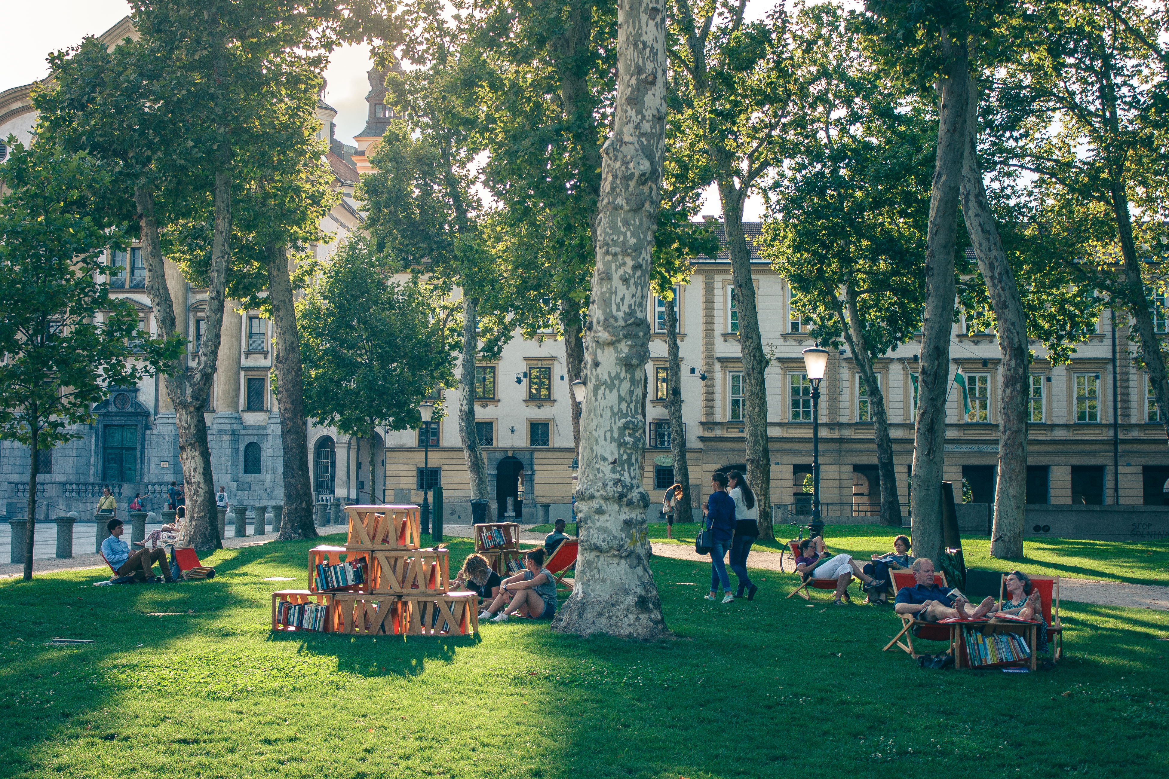 Free reading, book browsing and relaxing in Ljubljana. Readers enjoy sitting under the treetops, reading fiction books or leafing through magazines. Lots of people also come to these public spaces to listen to thematic discussions. Photo by Matej Perko.